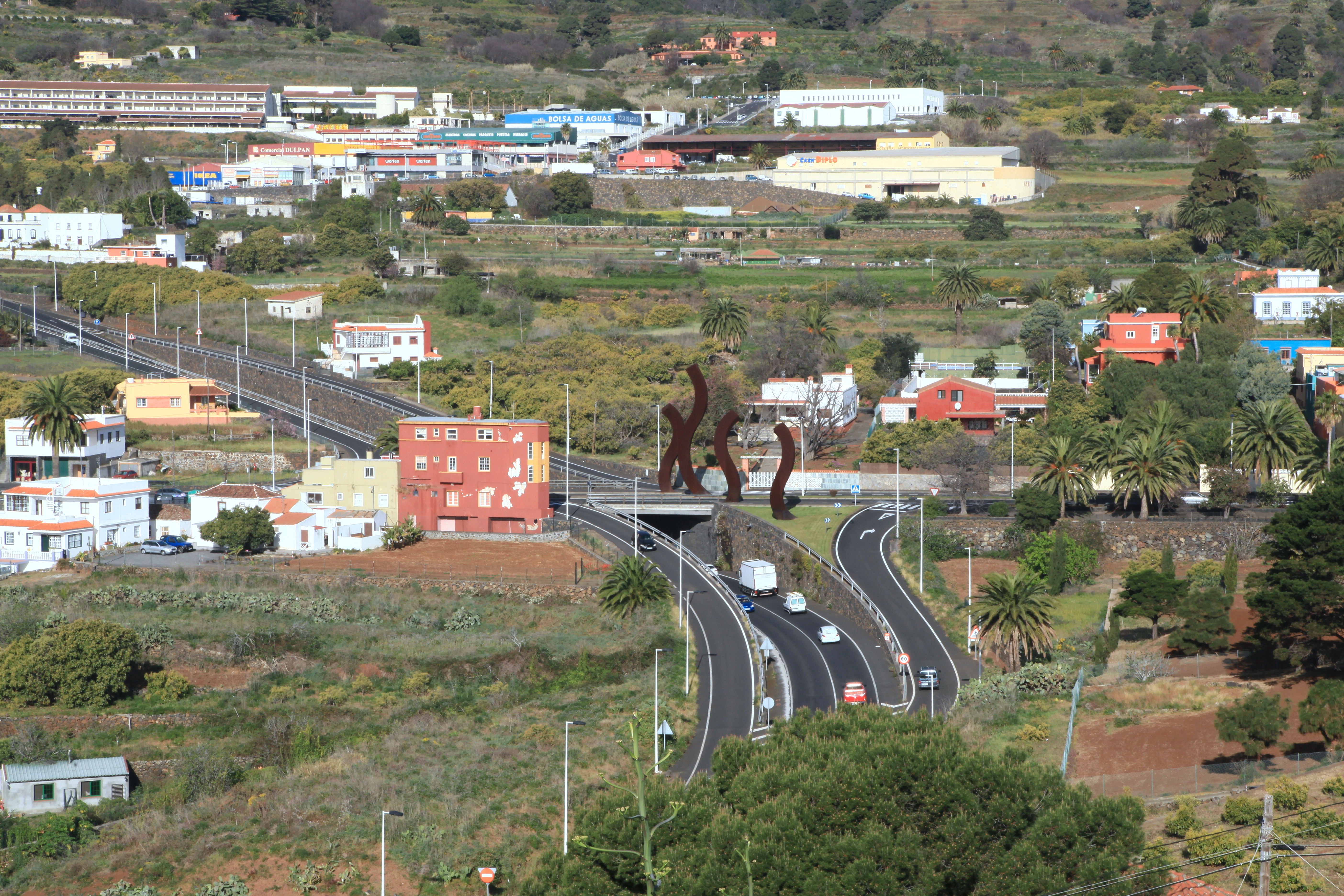 Views from Mirador de La Concepción down road LP-3 (below) and LP-202 (above) in Breña Alta, La Palma, Canary Island, Spain